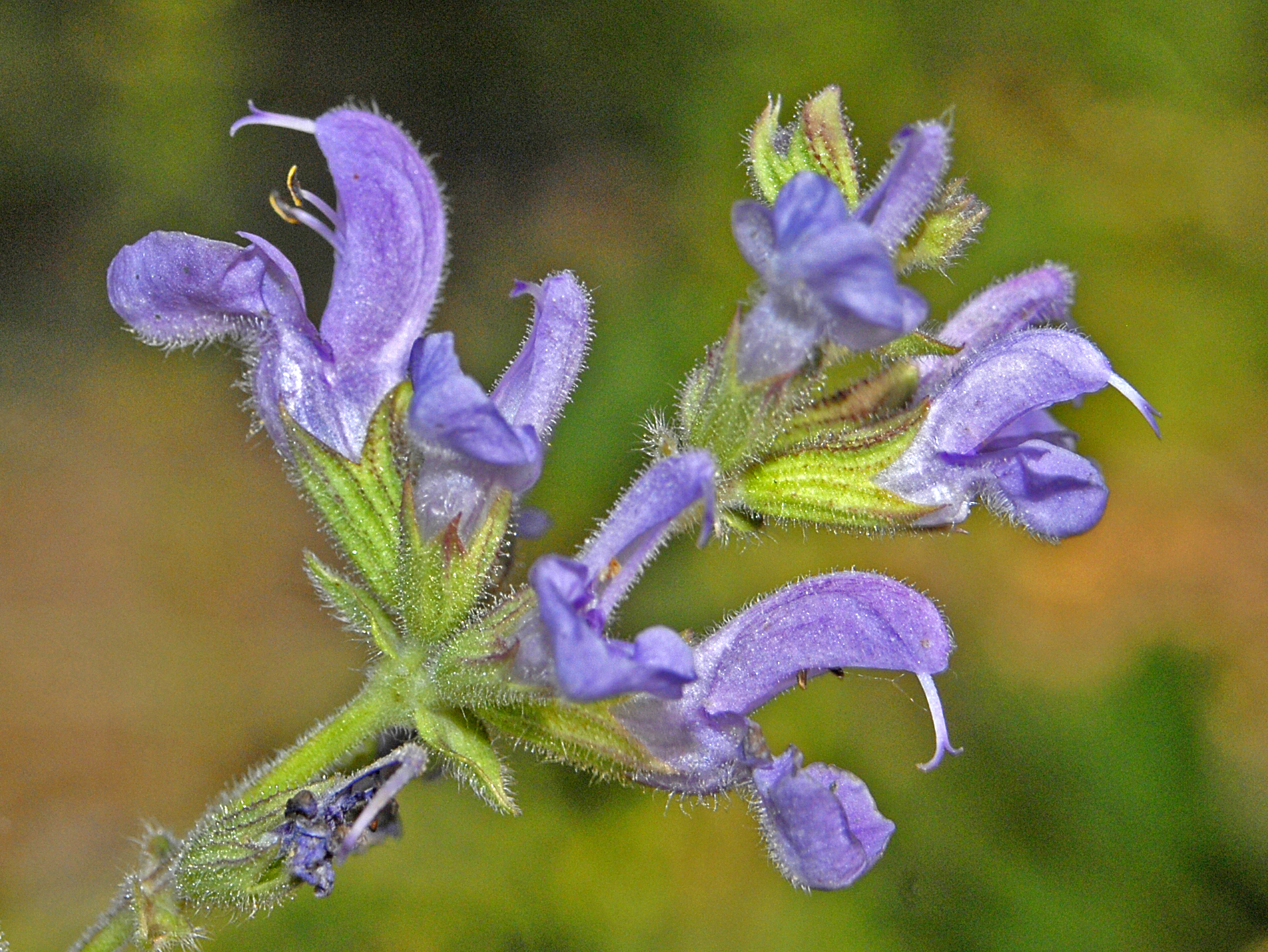 Flower of Salvia virgata at the Orto Botanico di Brera